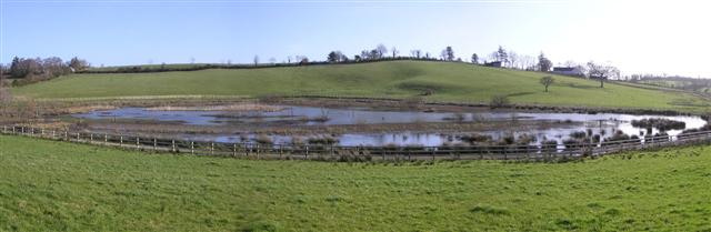 Carran Townland This small lake was not indicated on the map.